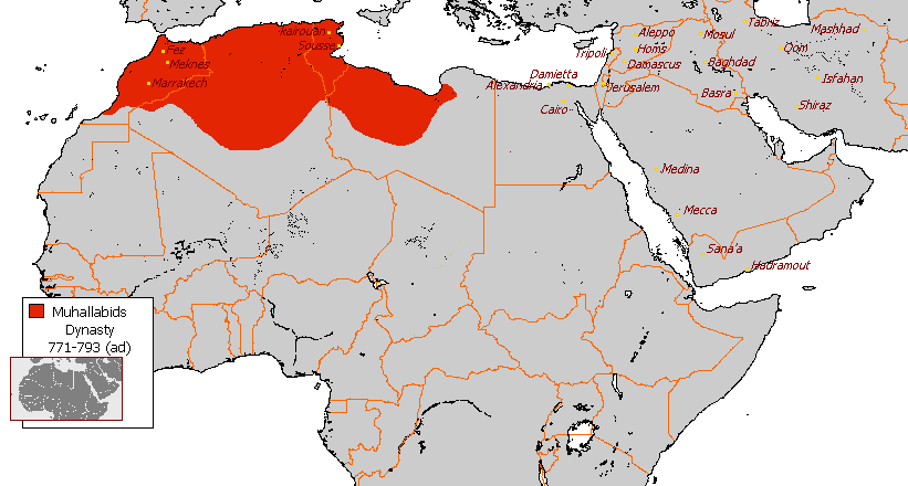 Muhallabids Dynasty 771-793 (AD)